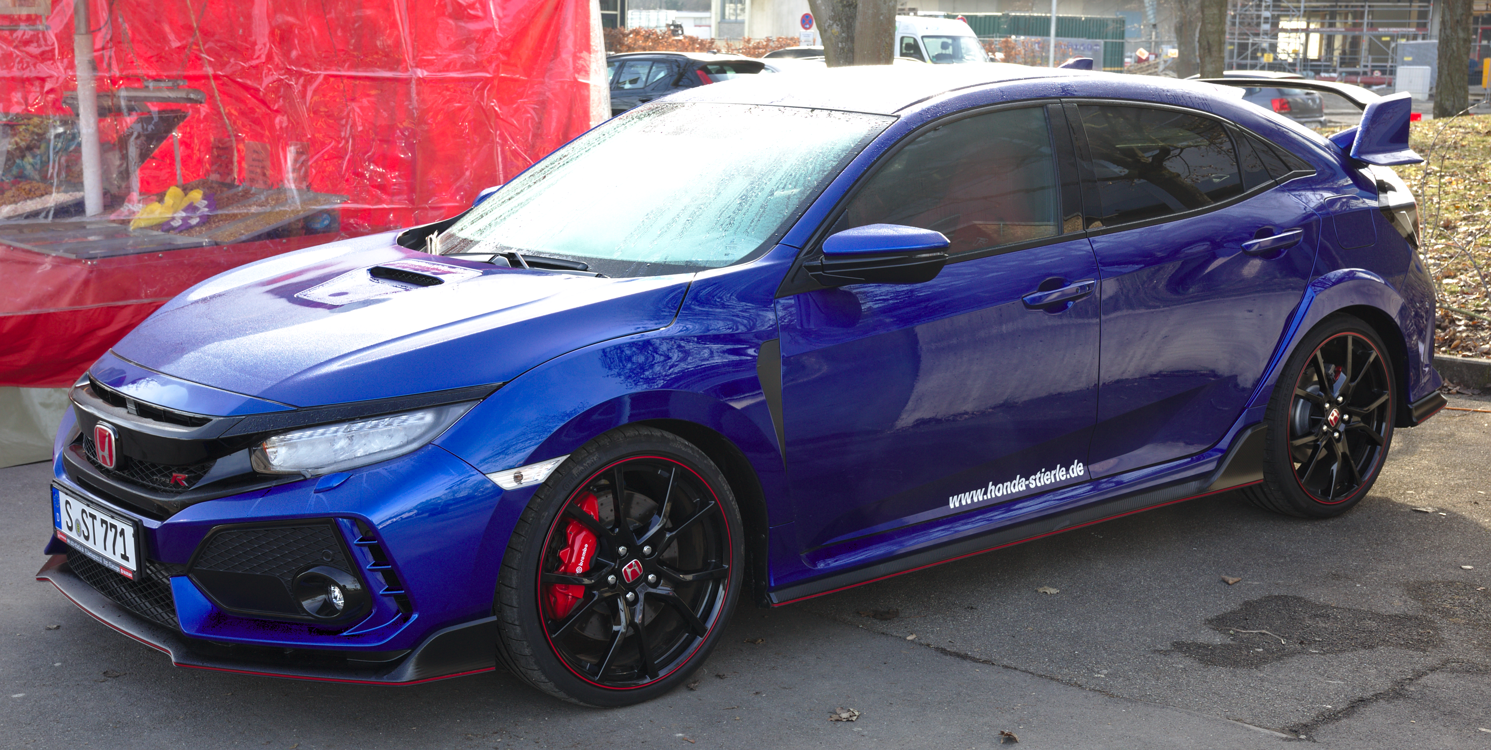 Honda Civic Type R at Autosalon Filderstadt 2019